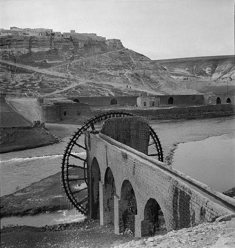 View of Rastan (in the background) and waterwheel off of Orontes River